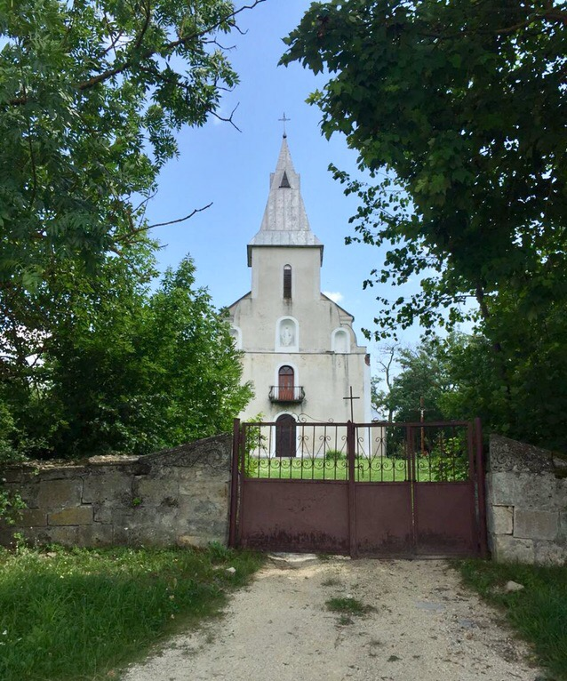 This Roman Catholic church was built in XVII century.